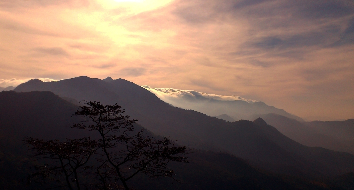 The Ponmudi hills provide a heavenly beauty of nature. A scene of sunrise from the Golden Peak Resort